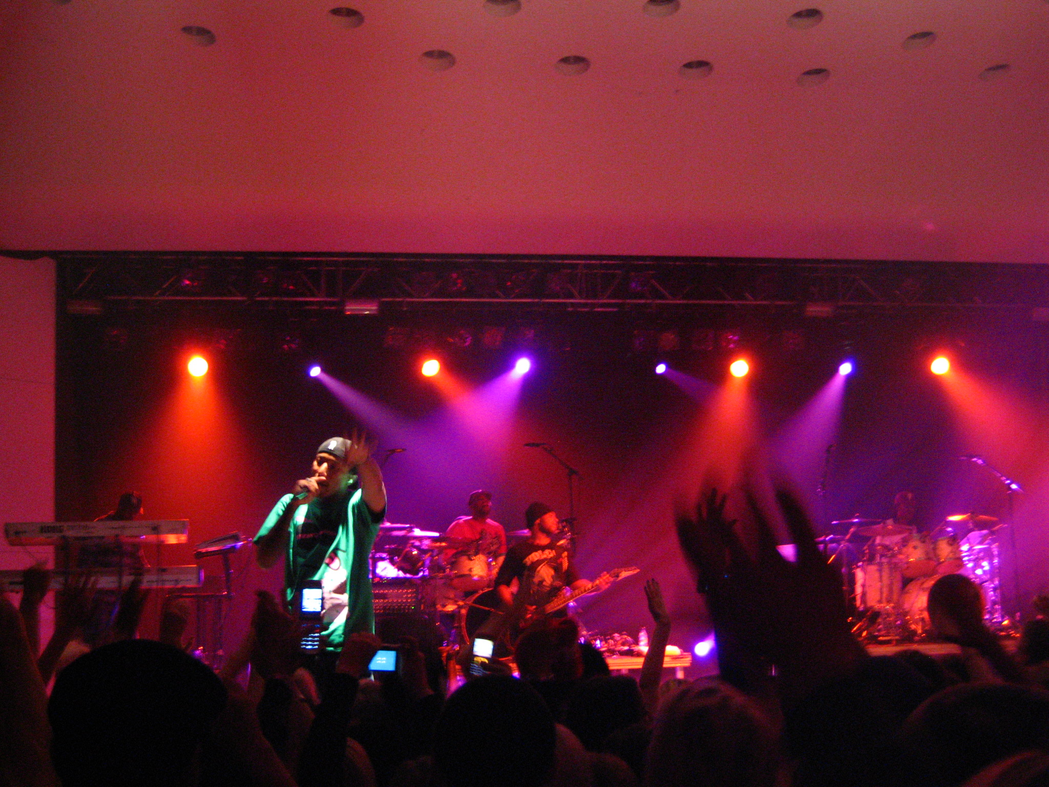 American band N.E.R.D performing at Kulttuuritalo, Helsinki.